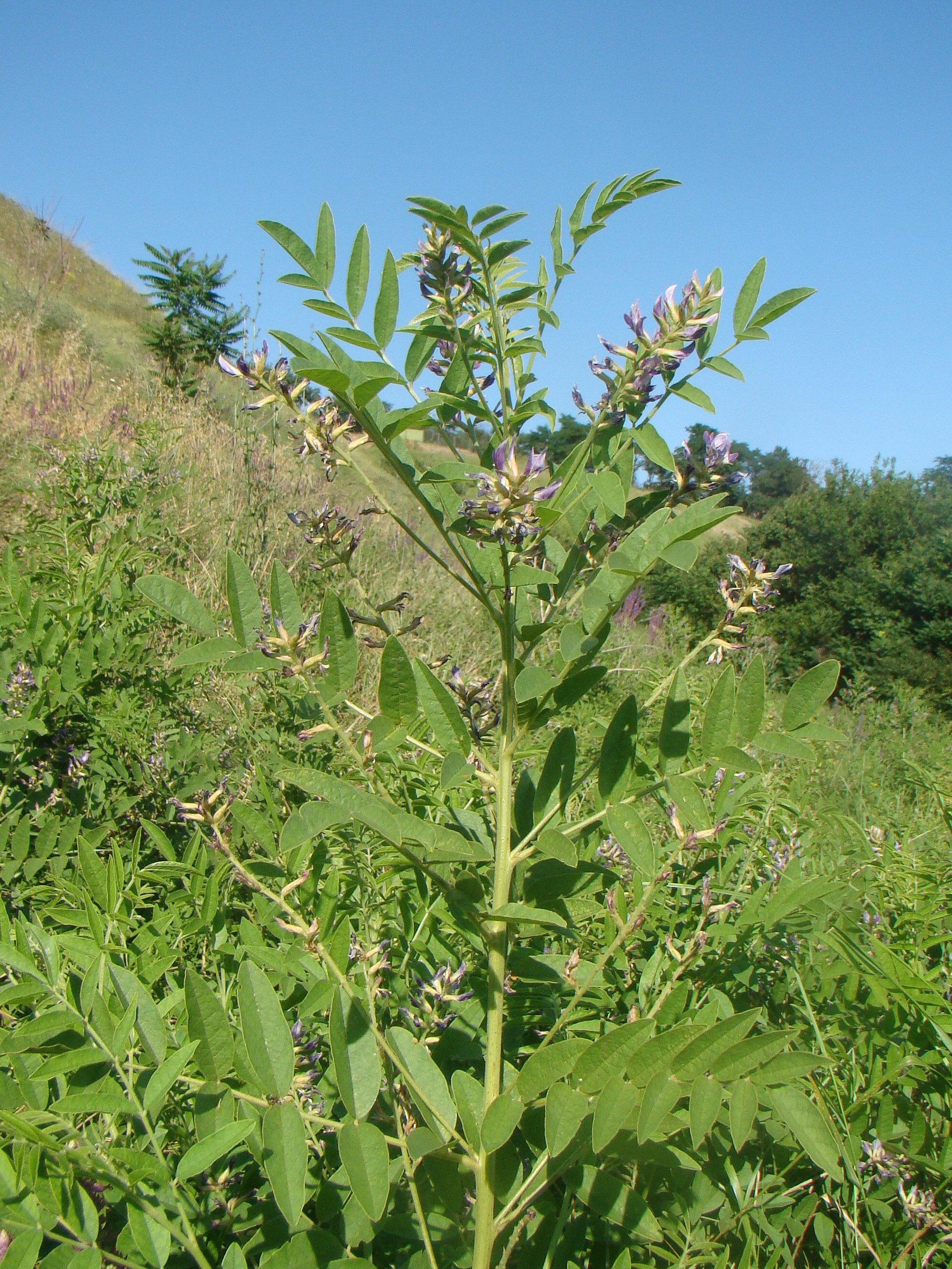 Glycyrrhiza glabra. Russia, Krasnodar kray, Ust'-Labinsk. Coast of Kuban River.